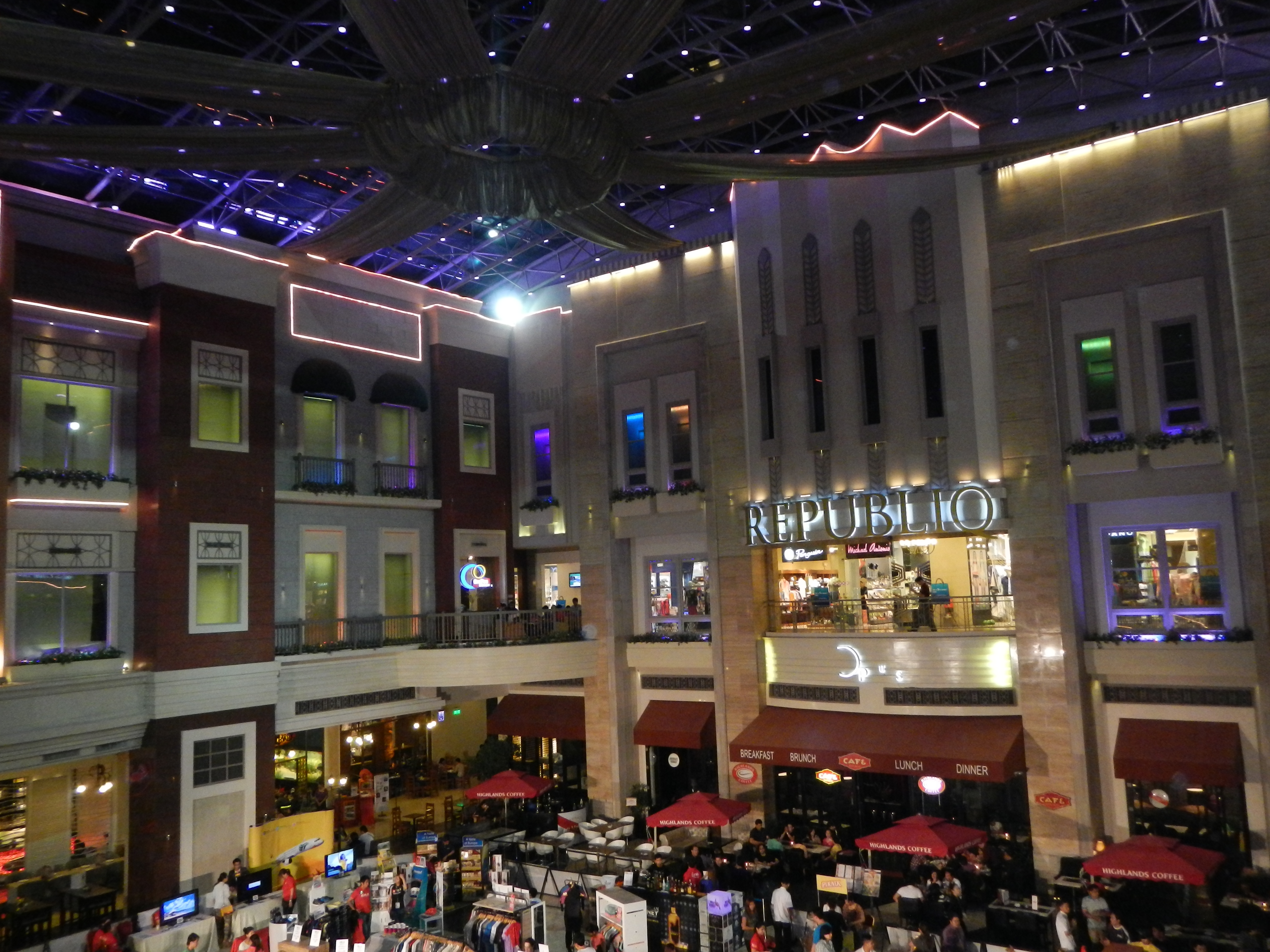 Resorts World Manila[1] is a casino resort, located in Newport City, opposite the Ninoy Aquino International Airport (NAIA) Terminal 3, in Pasay[2], Metro Manila, Philippines. The resort is a joint venture between Alliance Global Group and Genting Hong Kong. The project, occupying part of a former military camp near Manila’s airport, has three hotels with 1,574 rooms, a 30,000 square meter (323,000 square feet) casino and a 30,000 square meter shopping mall.[1] Although the soft launch of the resort took place on 28 August 2009, the grand opening was scheduled on July 2010.[2] Resorts World Manila is the sister resort to Resorts World Genting, Malaysia and Resorts World Sentosa, Singapore.It is the only casino resort in the country until the opening of Solaire Resort & Casino in Entertainment City, Paranaque City on March 16, 2013.[3]Coordinates: 14°31'11"N 121°1'9"E [4] is a 7.8 hectare Entertainment Complex consisting of Marriott Hotel, Maxims Hotel, Remington Hotel, an upscale mall, premium cinemas, theater, and the country's largest casino.[5][6][7]Resorts World Manila to bring beloved fairy tale to life[8]